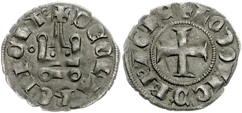 Crociati Crusaders. Frankish Possessions in Greece. Achaea. Louis of Burgundy. 1313-1316. BI Denier Tournois (19mm, 0.91 g, 7h). Cross pattée Châtel tournois; to left, annulet. Metcalf, Crusades, 993-996; CCS 29